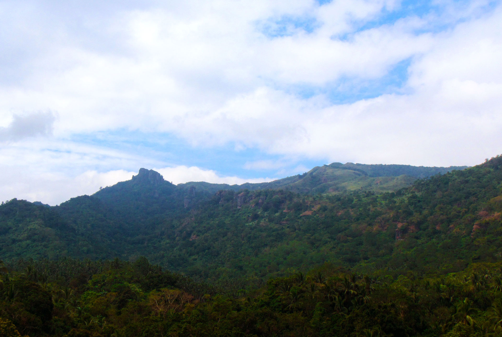 A view of Mt. Mataas na Gulod located the Maragondon, Cavite in the Philippines together with its boulders pillar, the Mt. Marami. Shot by Schadow1 Expeditions during its Mataas na Gulod Palay-Palay Mountain Range mapping expedition of 2014.